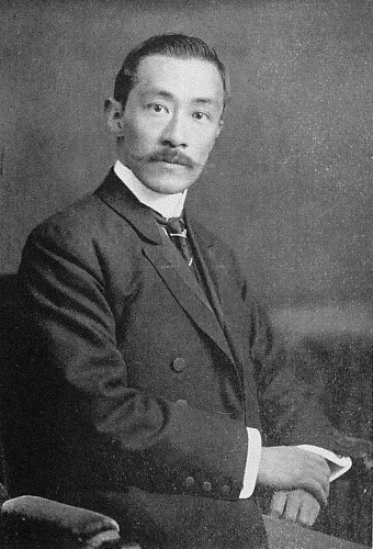 Nakahiro Ikeda